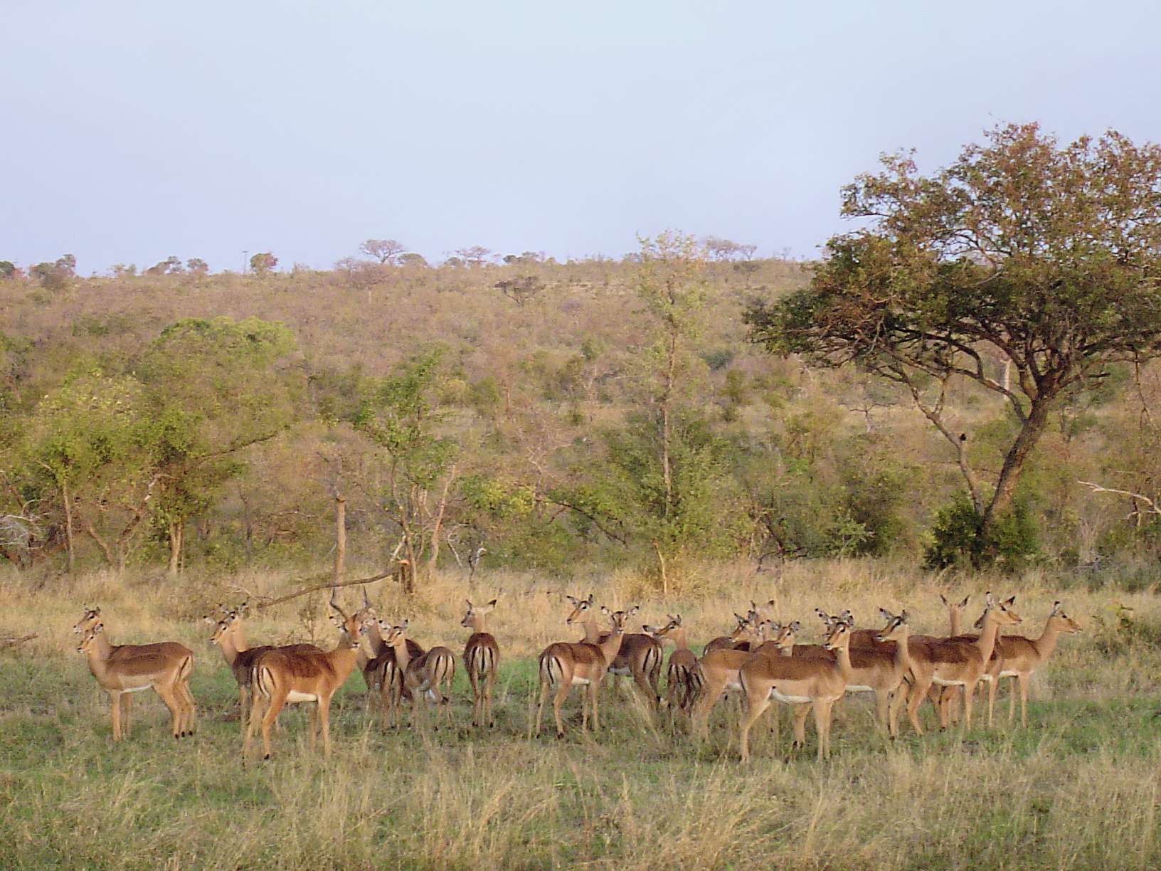 Impala in a South African national park.